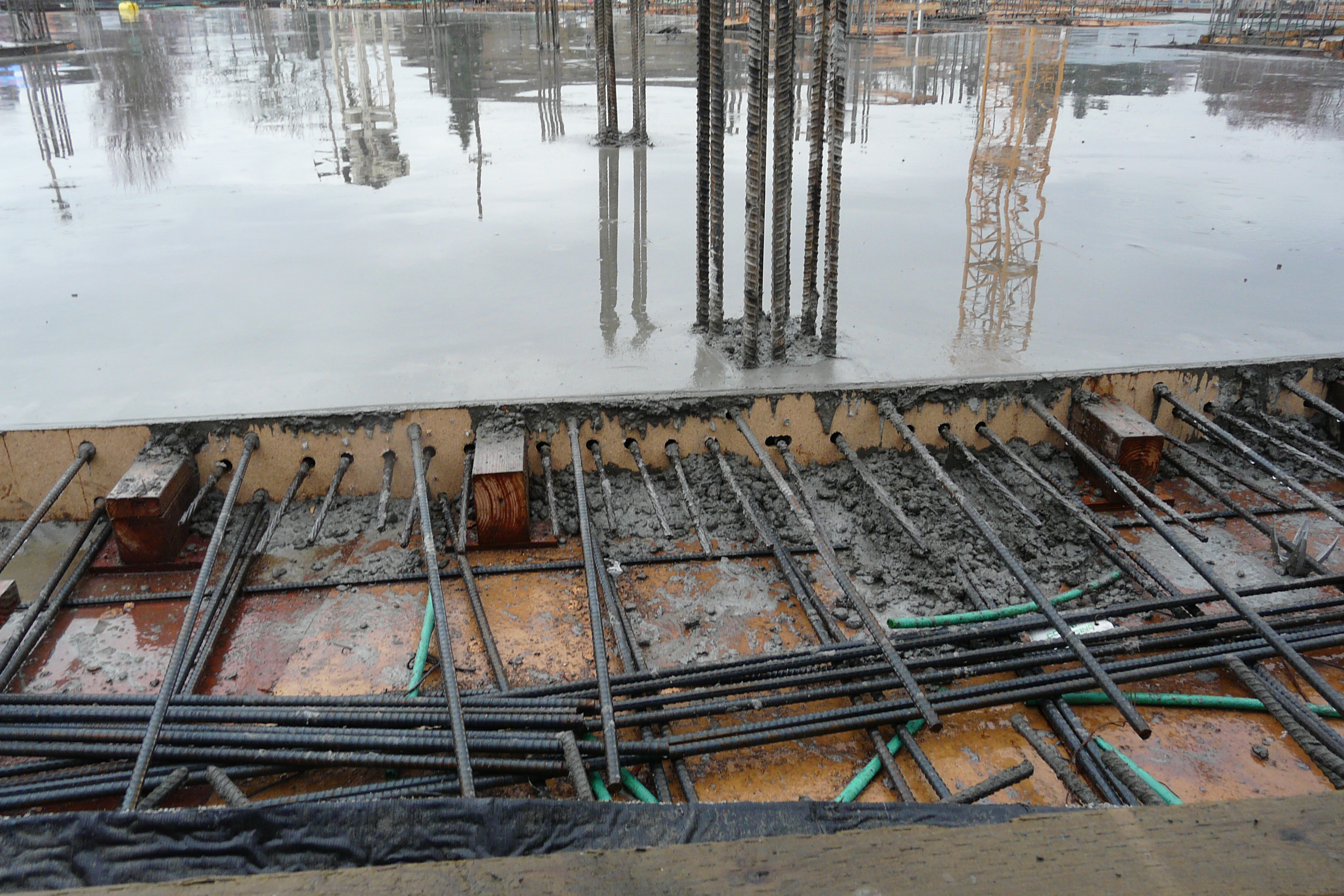 Post-tensioning cable ends extending from freshly poured concrete Licensing Tập tin:Post-Tensioning-Cables-5.jpg